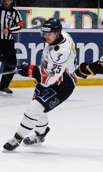 Johannes Salmonsson during a SHL game against AIK.